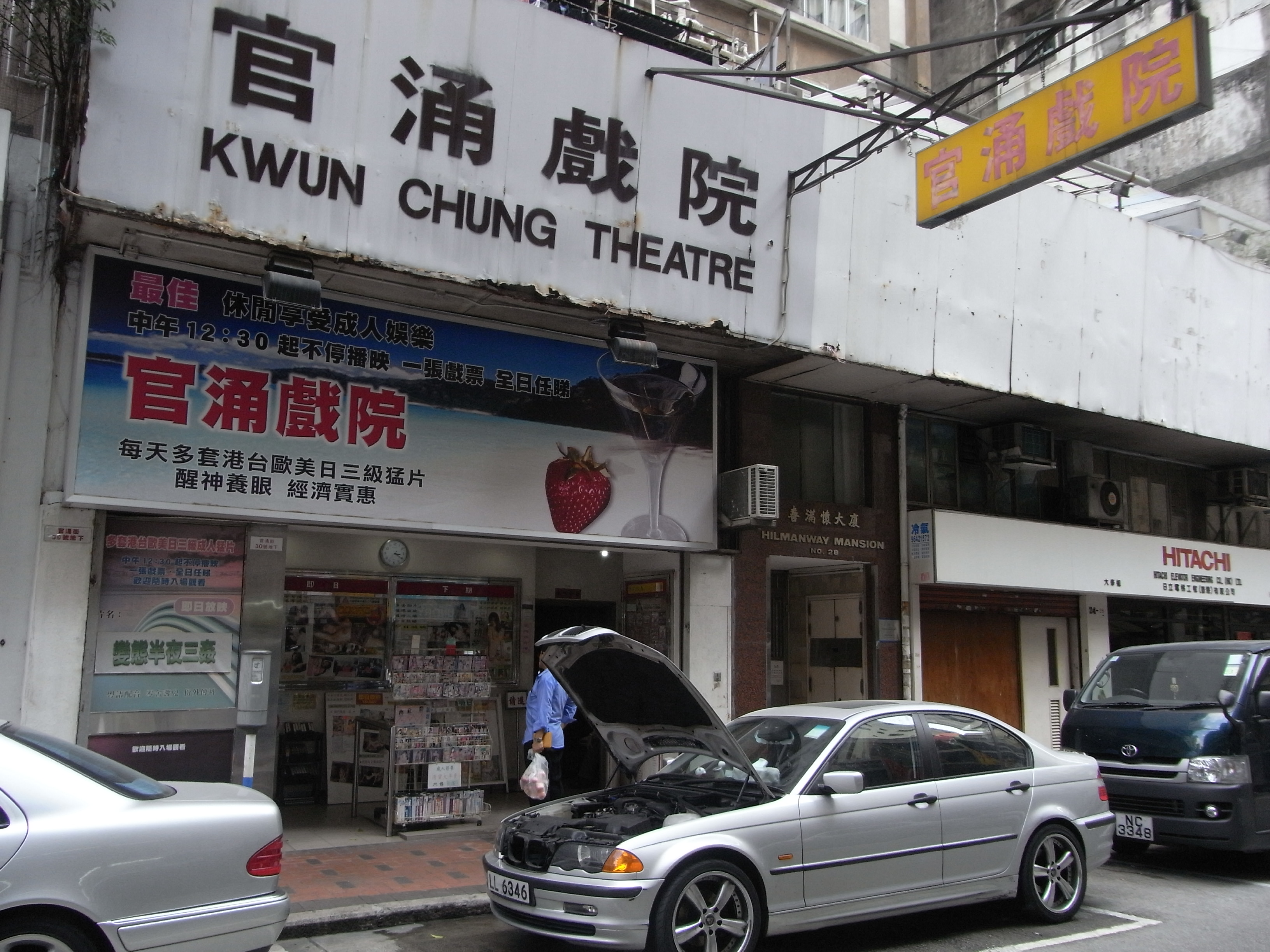 佐敦 官涌街 官涌戲院